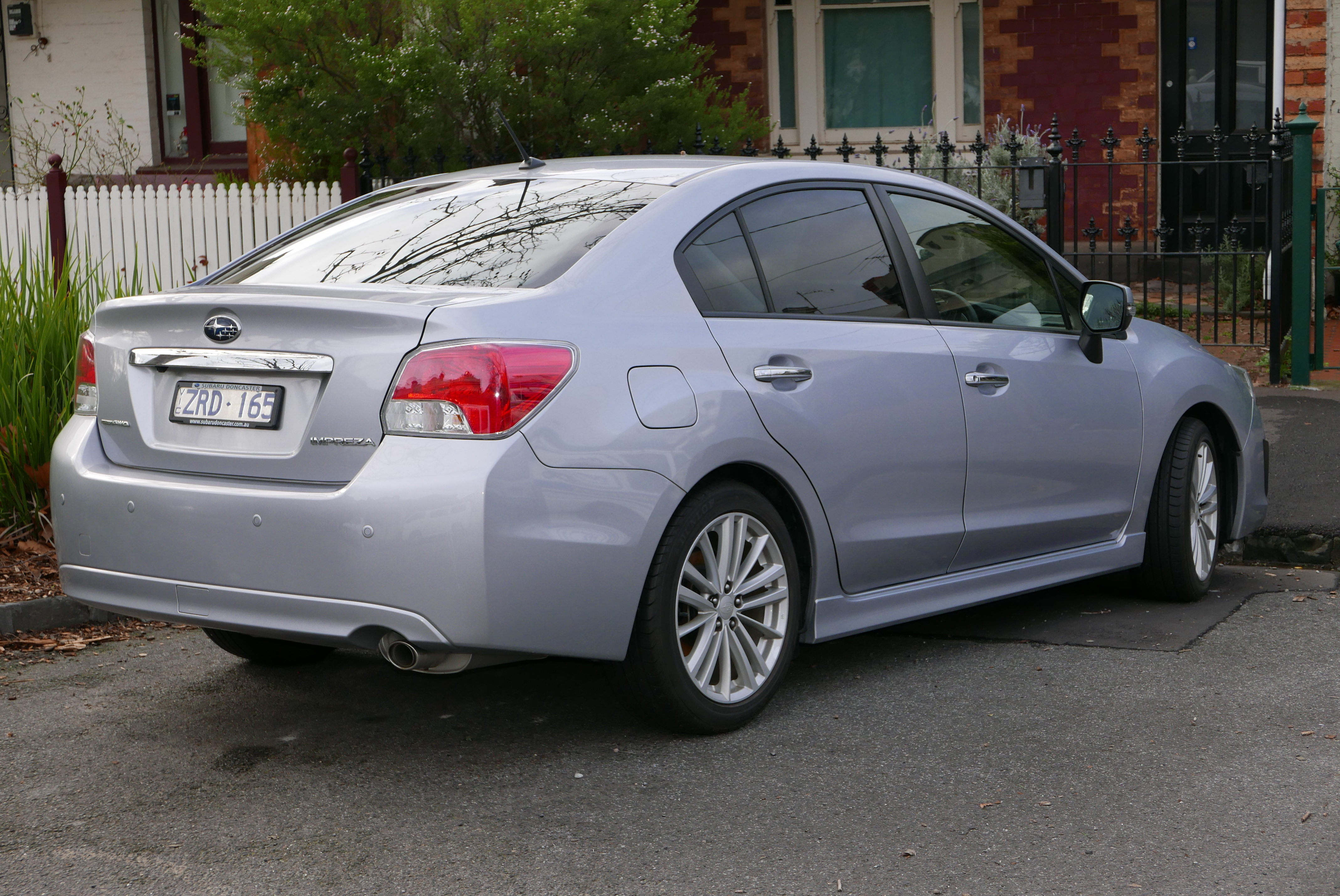 2012 Subaru Impreza (GJ7 MY12) 2.0i-S sedan. Photographed in Fitzroy North, Victoria, Australia. Vehicle registration enquiry results Jurisdiction Victoria Registration ZRD165 Chassis code JF1GJ7KC5CG003253 Engine code R302858 Compliance date 2012-08 Year of manufacture 2012